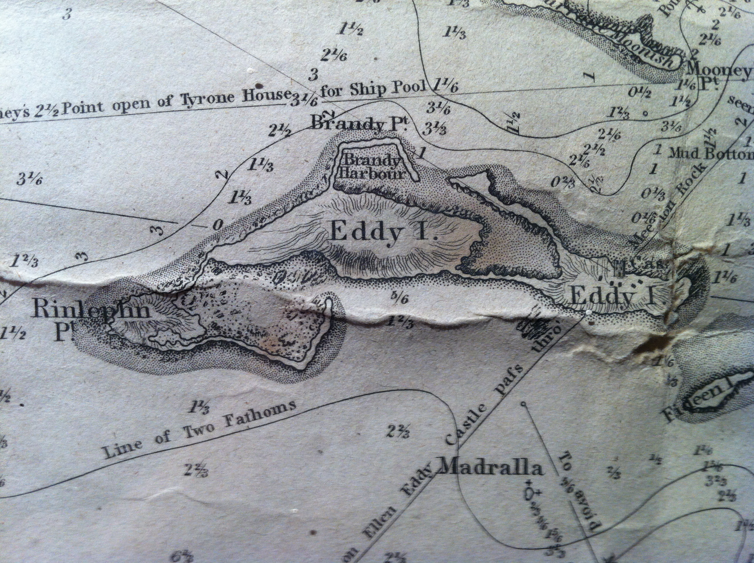 Photograph of an early 19th century sea chart.